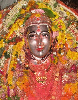 Photo of Goddess JAKHMATA at village DIWIPARANGI